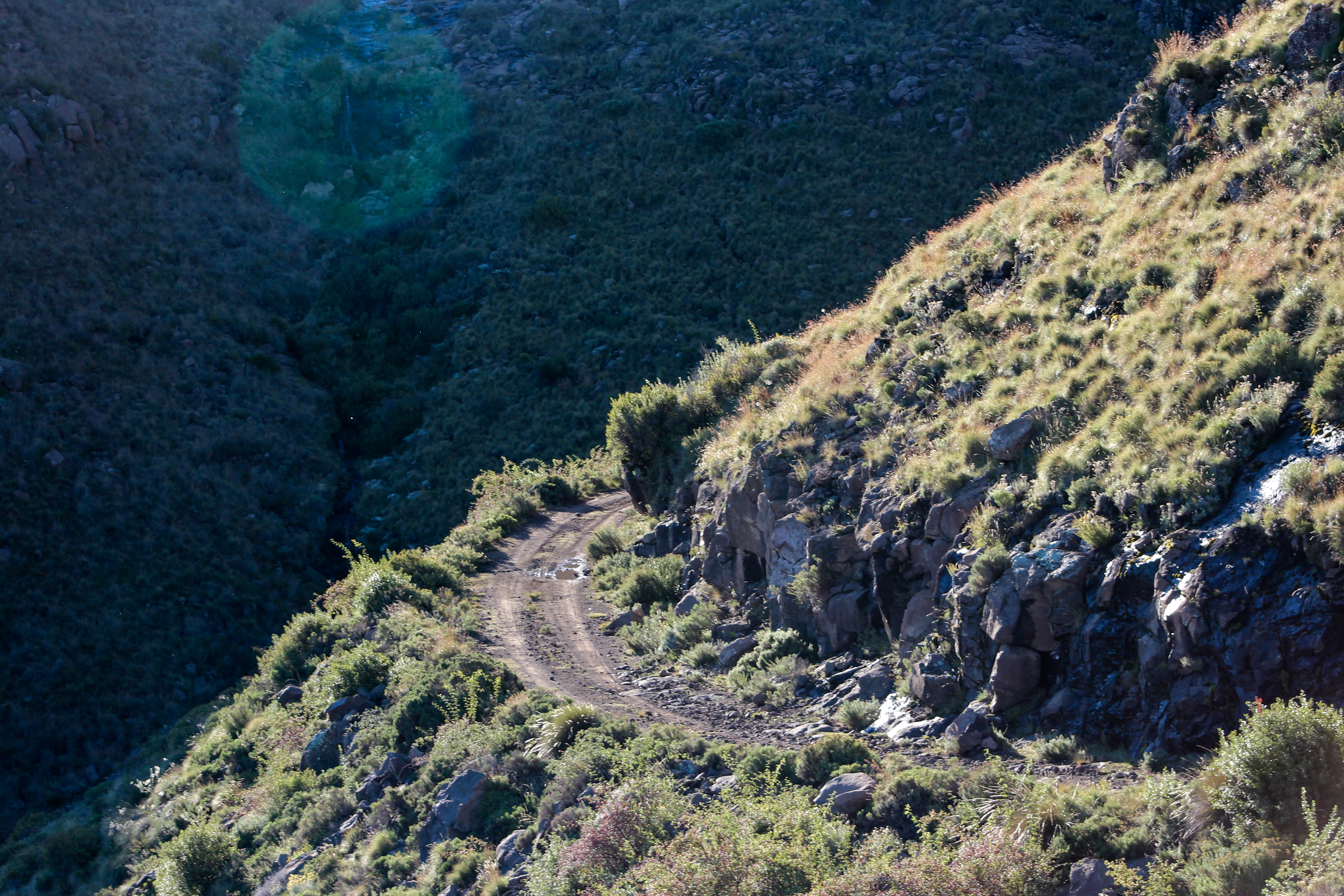 Nearing the top of Bidstone Pass , notice the sharp inclines